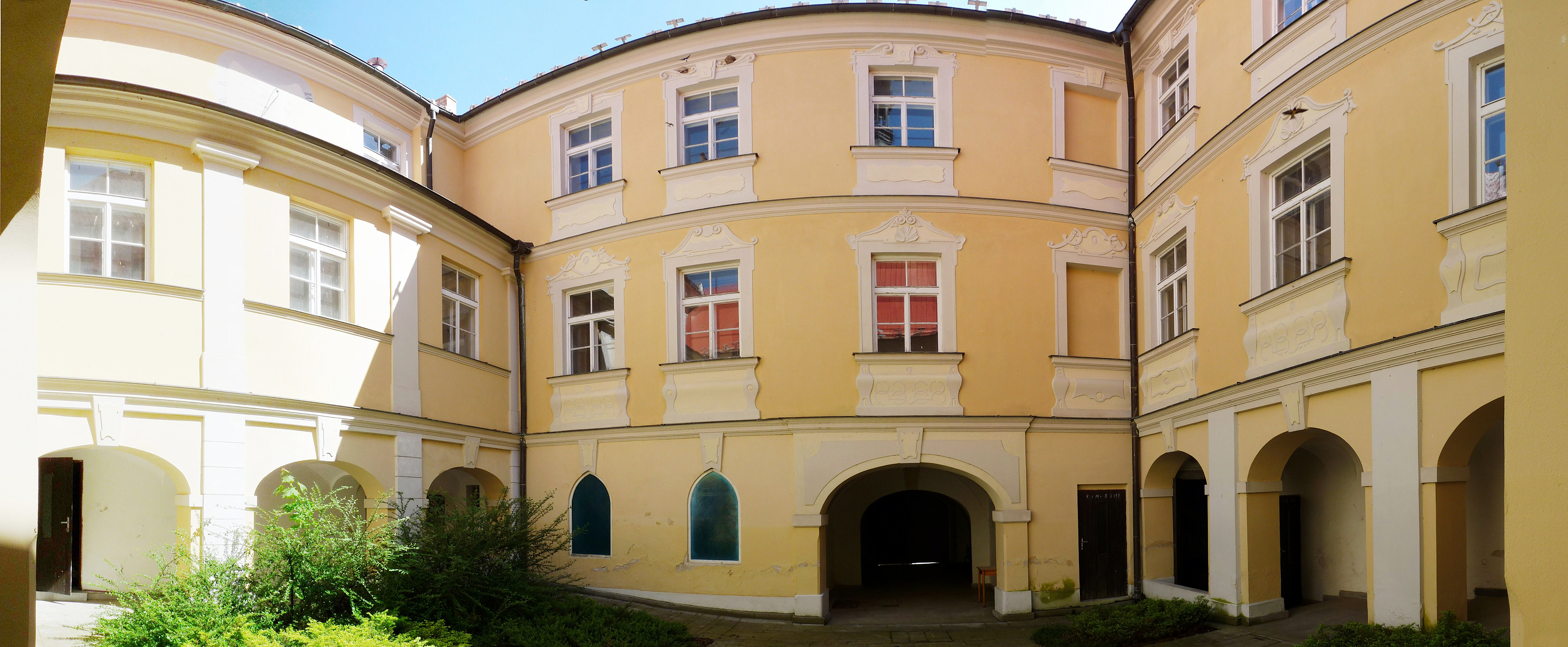 Castle courtyard in the town of Stádlec, Tábor District, South Bohemian Region, Czech Republic.